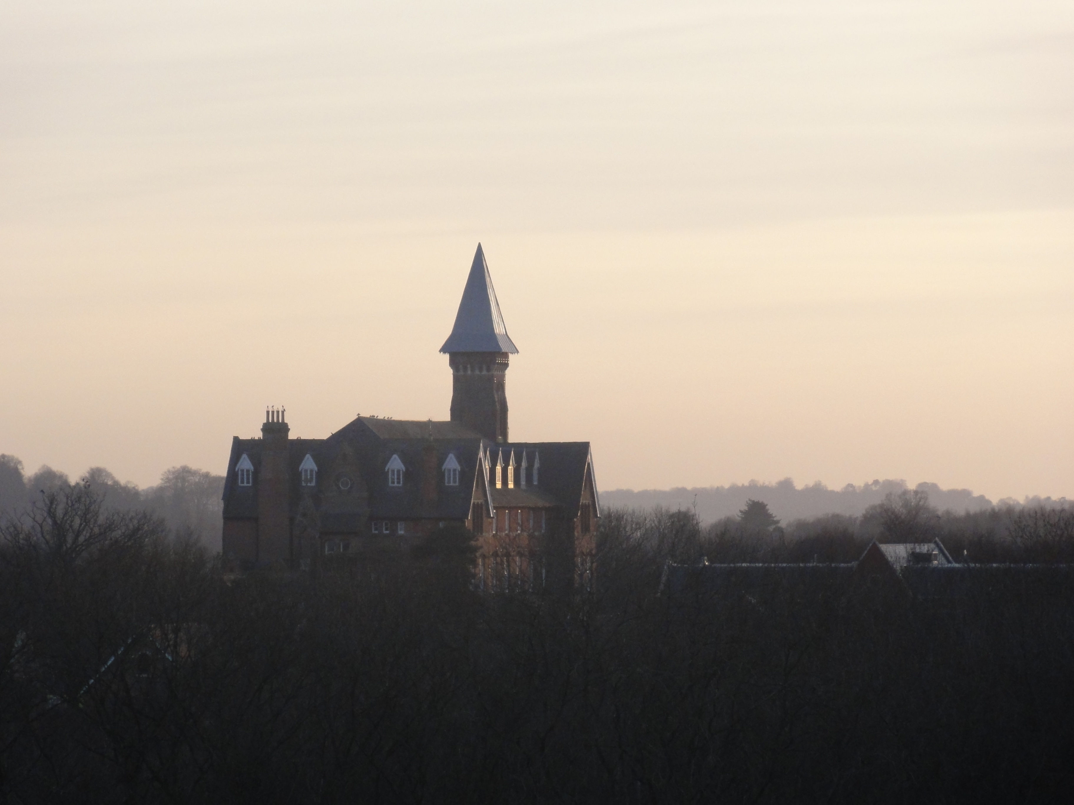 The old boys school–Mayfield College–now being redeveloped as 'Mayfield Grange'. A Grade-II listed building. Taken from Lake Street.